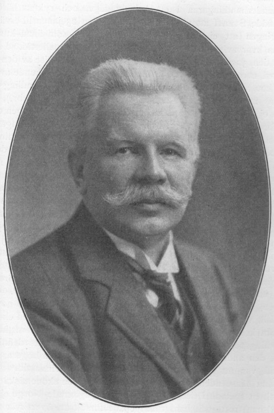 Karl Staaff (1860-1915), prime minister of Sweden 1905-1906 and 1911-1914.